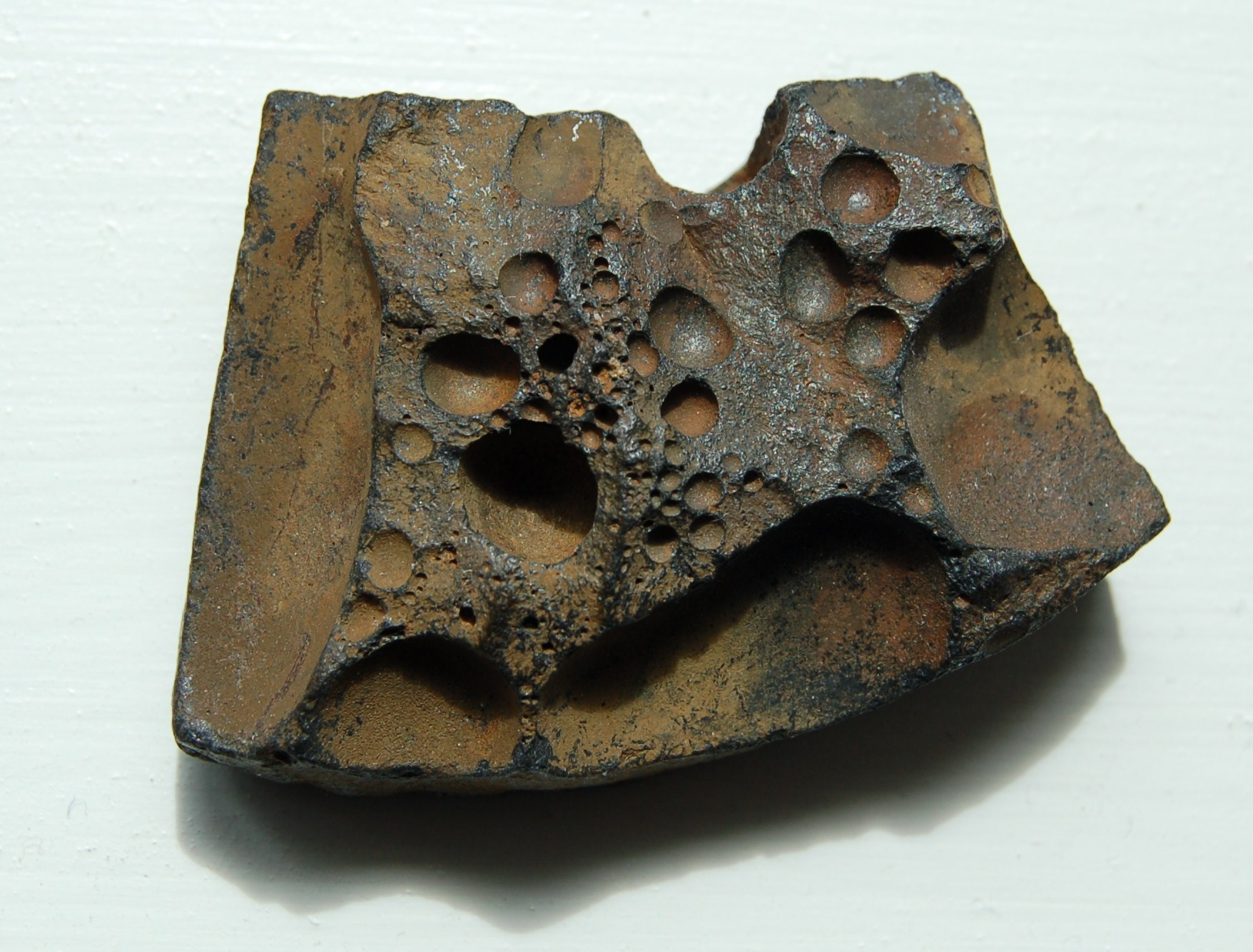 Slag